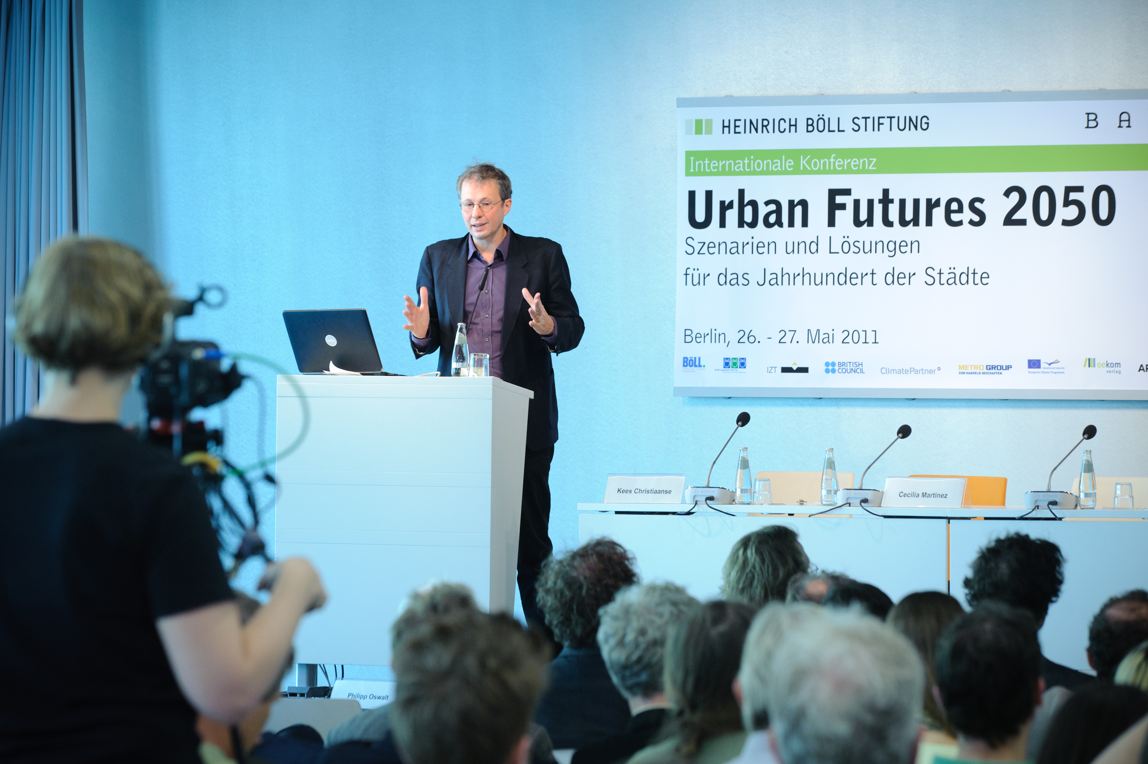 Philipp Oswalt (Direktor, Stiftung Bauhaus Dessau) Foto: Stephan Röhl